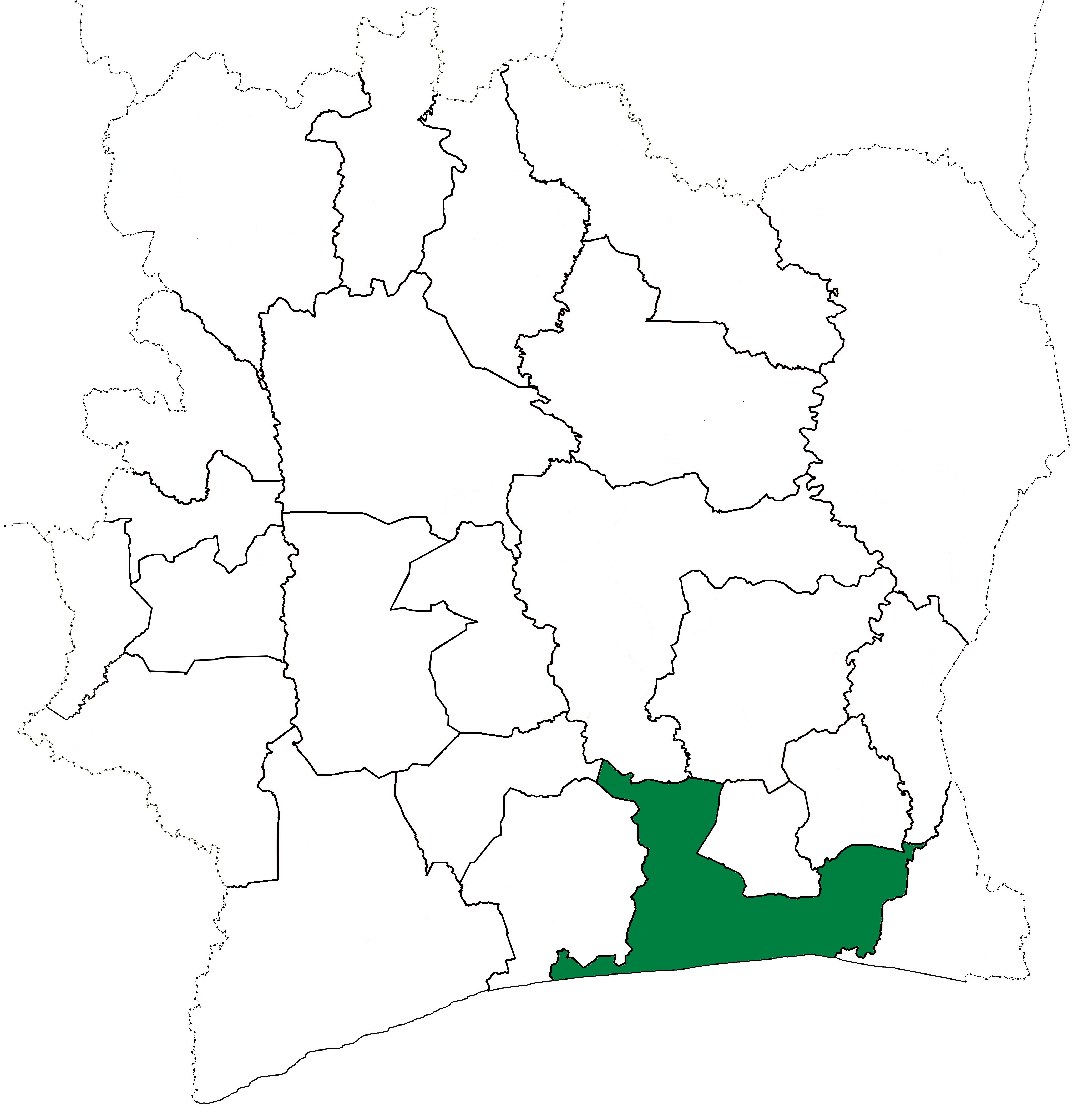 Locator map for Abidjan Department in Côte d'Ivoire when the 24 new departments were created in 1969. Abidjan Department kept these boundaries until 1998, but other departments began to be divided in 1974. Abidjan Department was abolished in 2011.